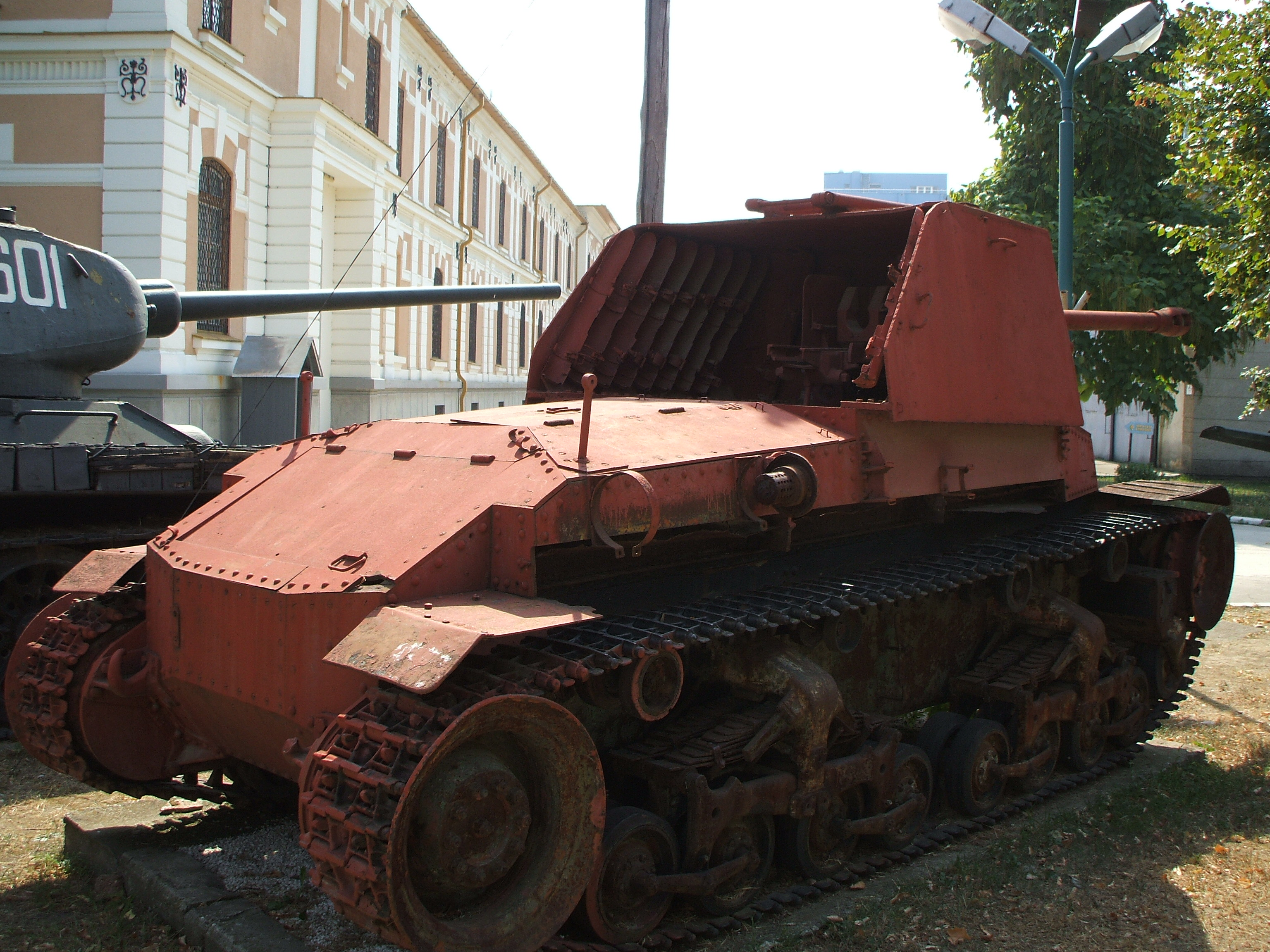 A Romanian TACAM R-2 tank destroyer on display at "King Ferdinand" National Military Museum in Bucharest.